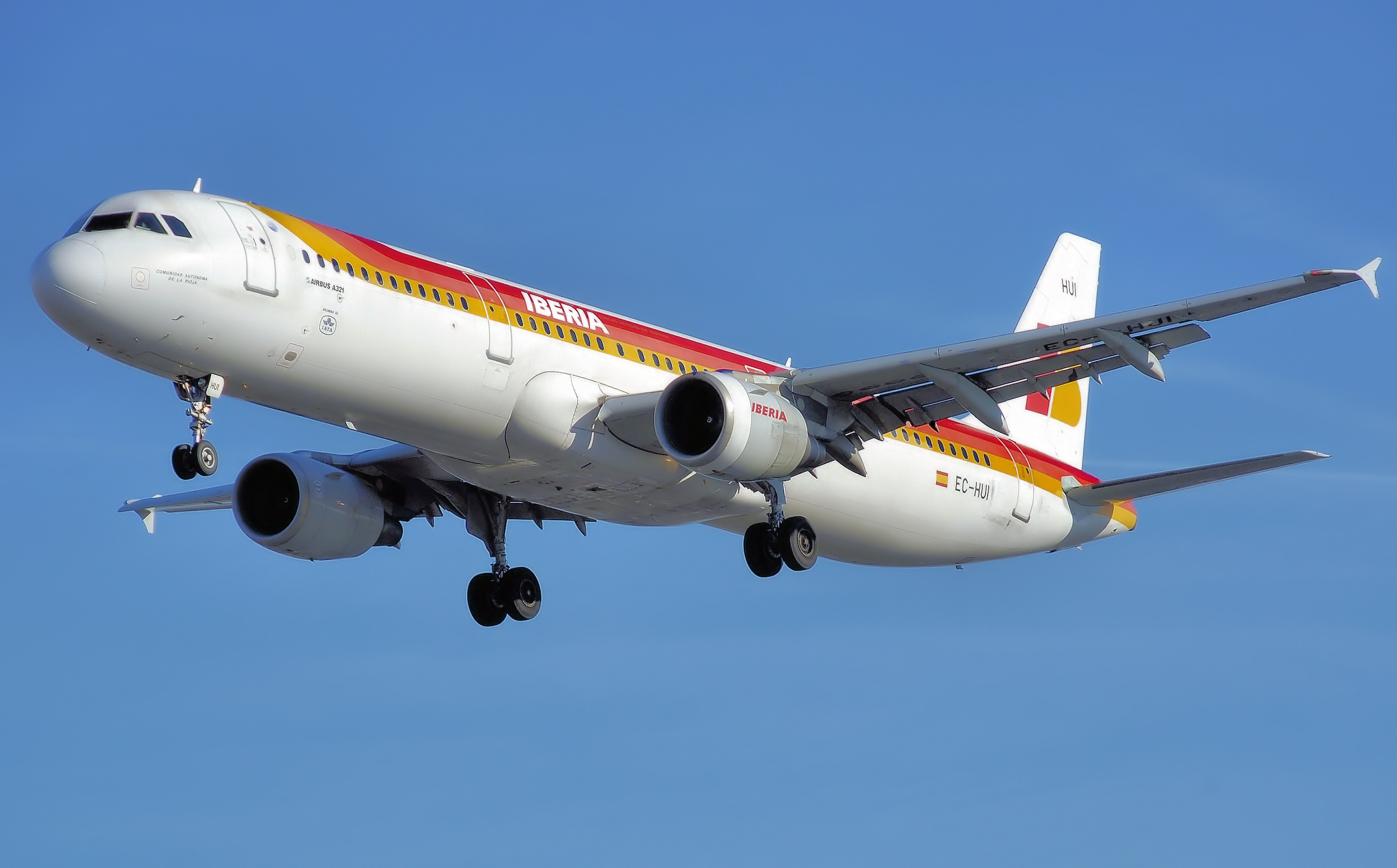 Iberia Airbus A321-200 (EC-HUI) lands at London Heathrow Airport, England.